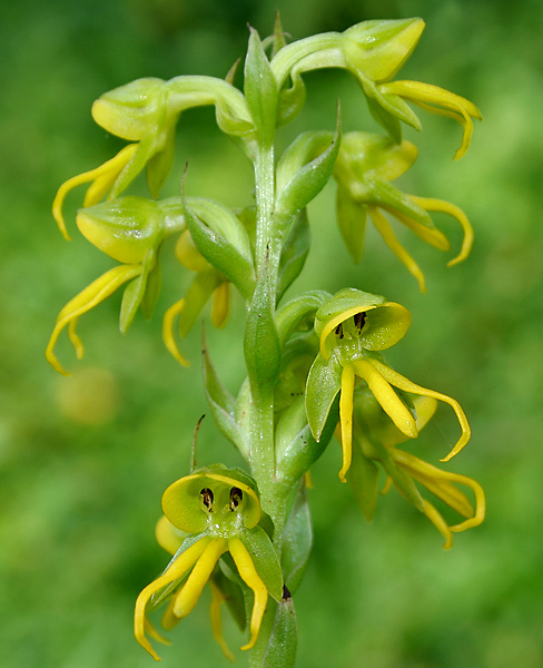 Habenaria marginata- Golden Yellow Habenaria • Marathi: पिवली हबेआमरी Pivali habe amri- in Goa, India.